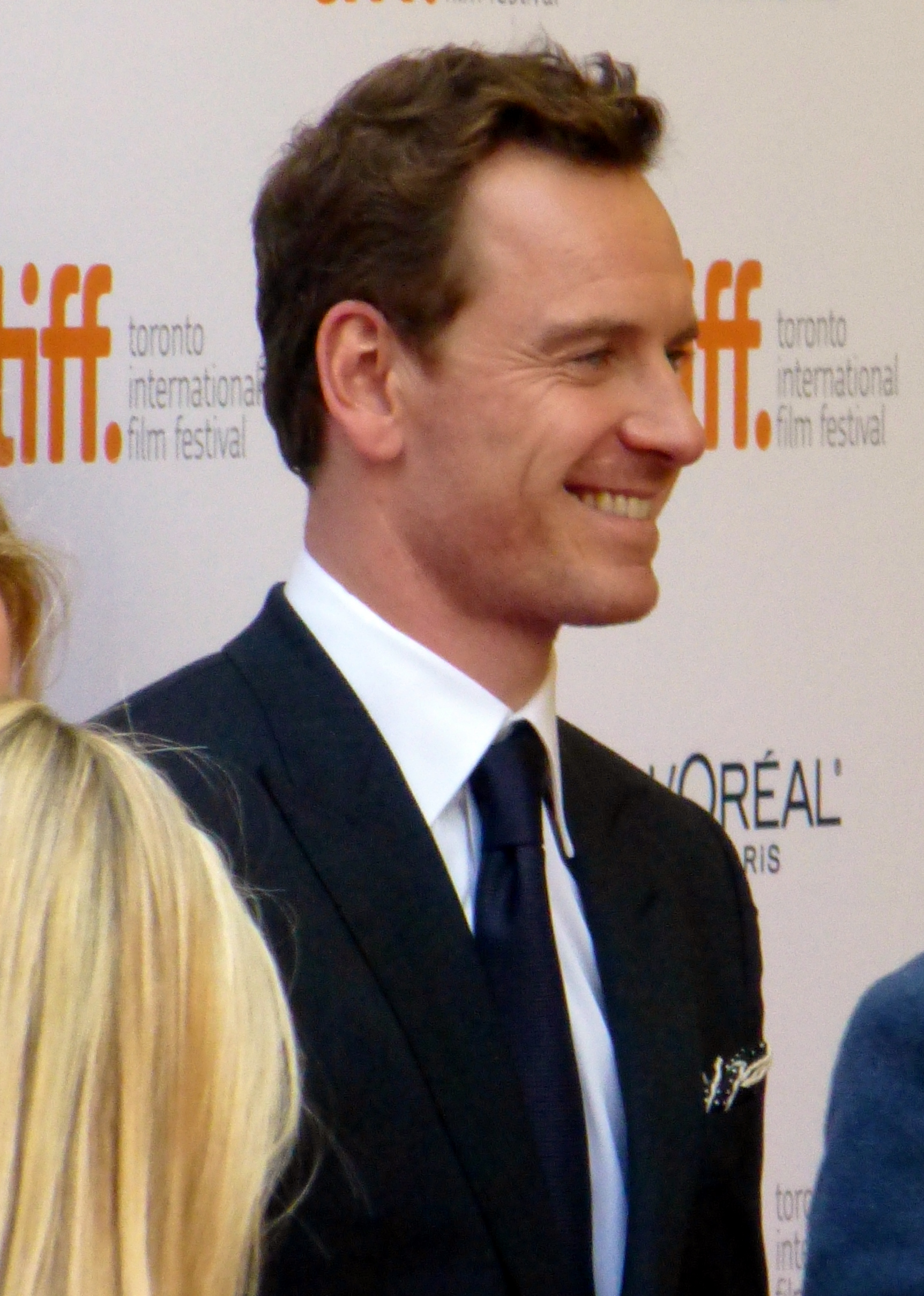 Michael Fassbender at the premiere of 12 Years a Slave, 2013 Toronto Film Festival